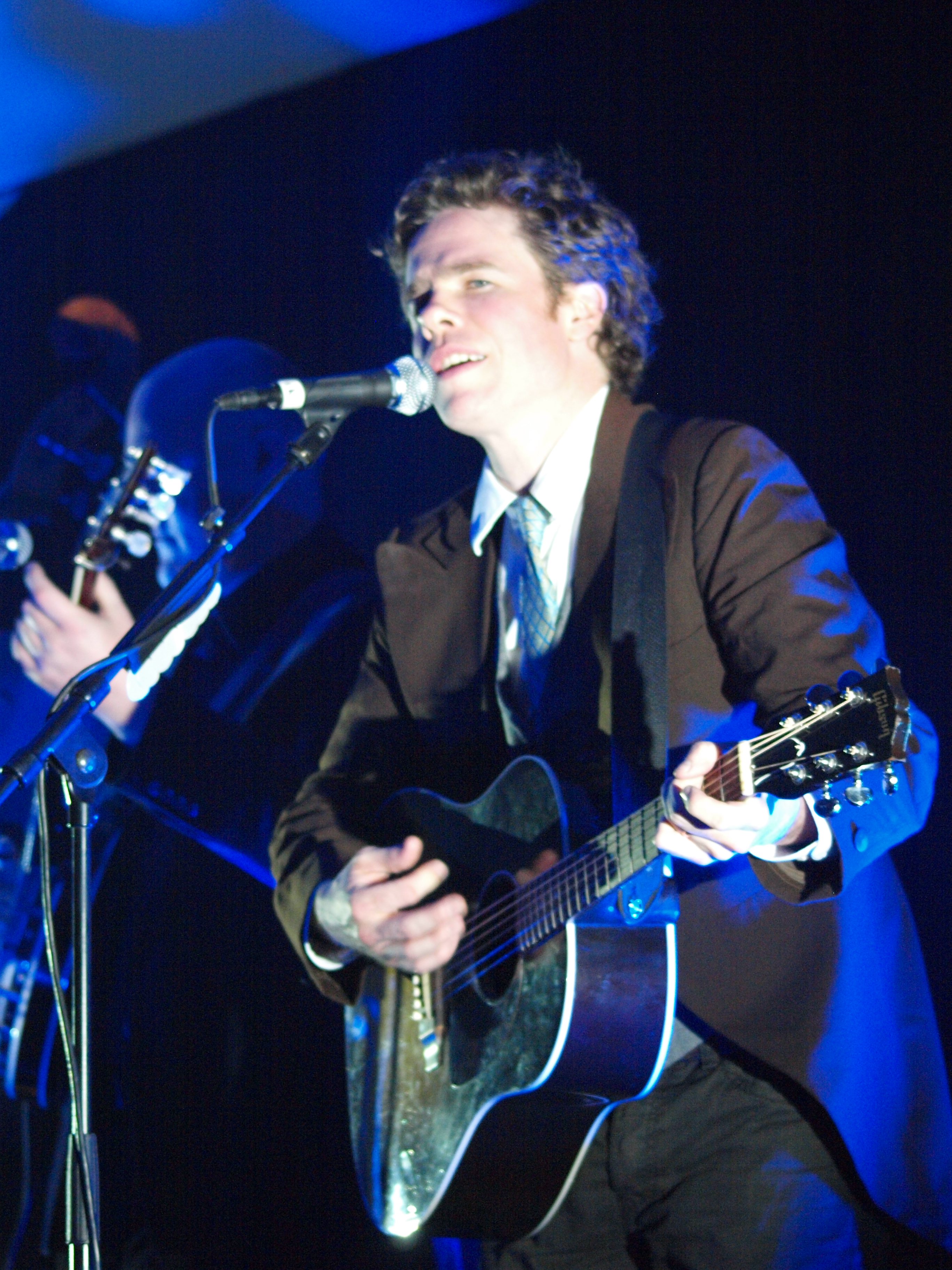 osh Ritter with the Love Cannon String Band on stage at the Riverbank Hotel, Wexford, Ireland on the 20th October, 2009